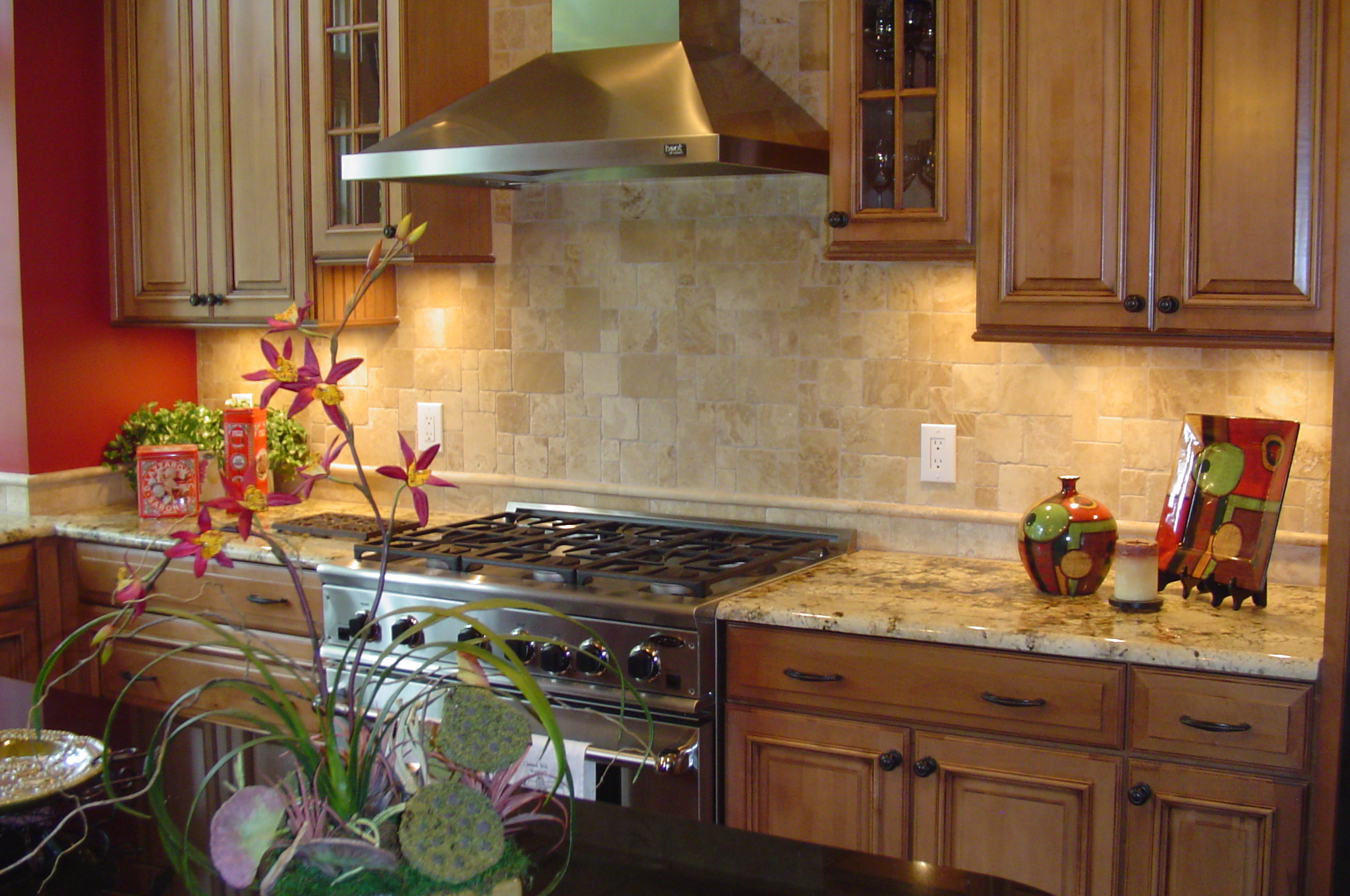 Kitchen Interiors from Eddie Rider Designs